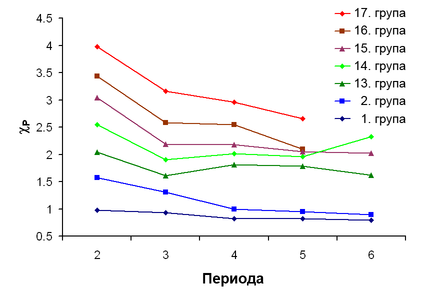 The variation of Pauling electronegativity as one descents the groups of the periodic table; x-axis gives period numbers [in Serbian]